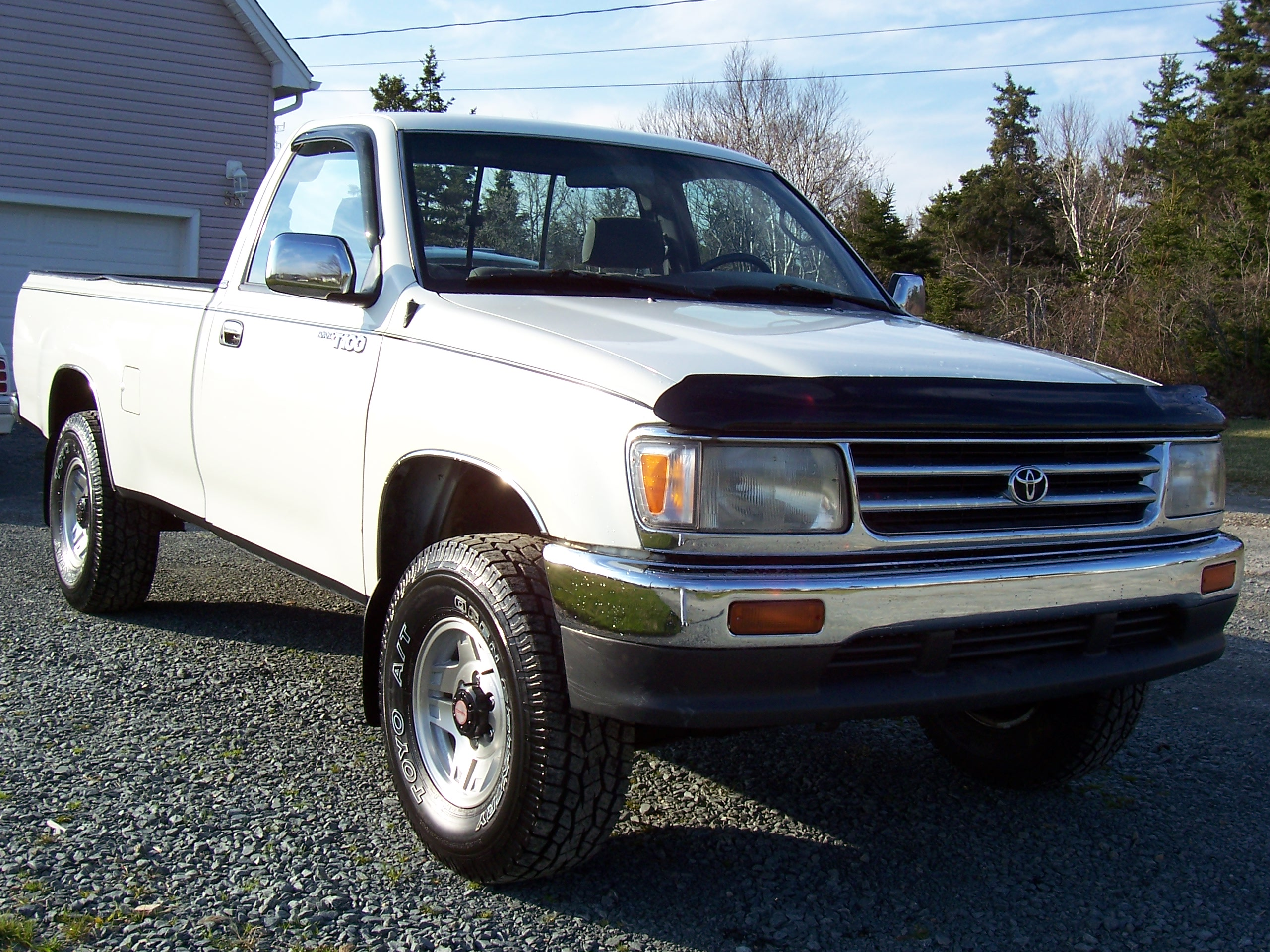 1993 Toyota T100 4X4 SR5.